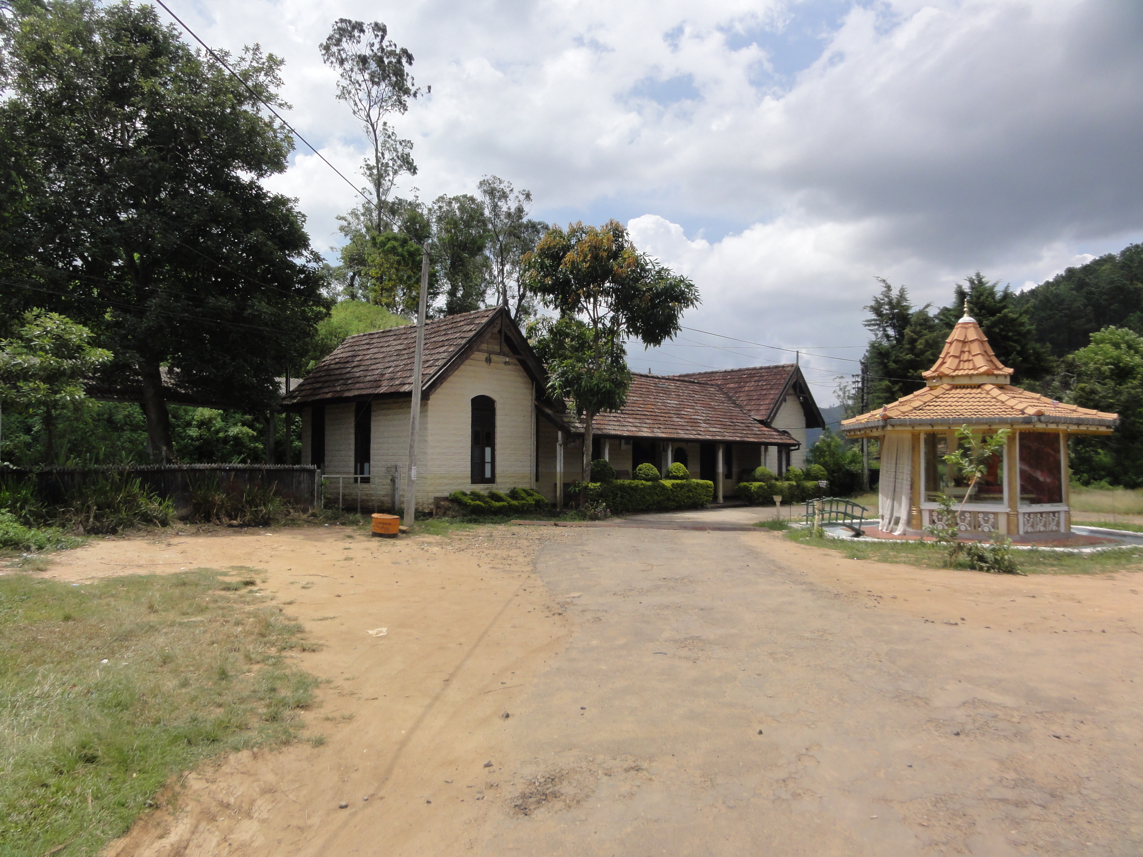 Trainstation Ella